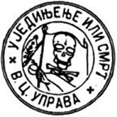 The seal of the secret Serbian society Black Hand (1911–1917)